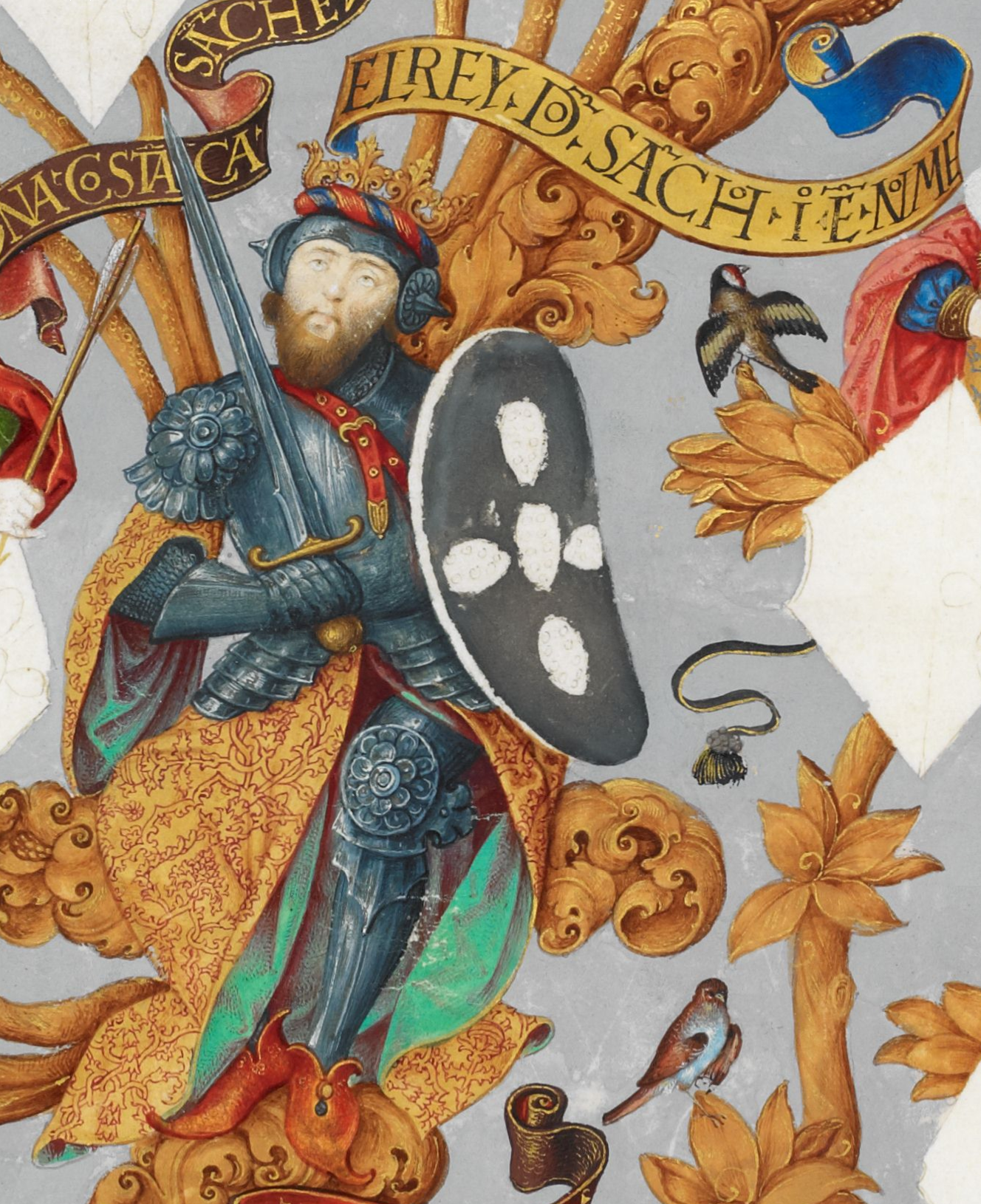 King Sancho I of Portugal (1154-1212), in a 16th century miniature.